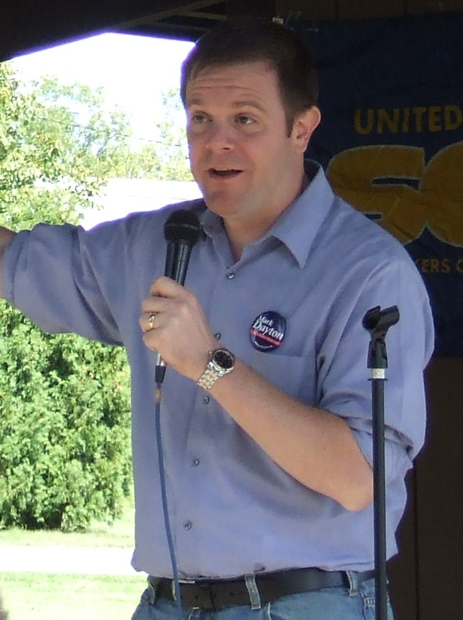 Minnesota State Rep. Tony Sertich